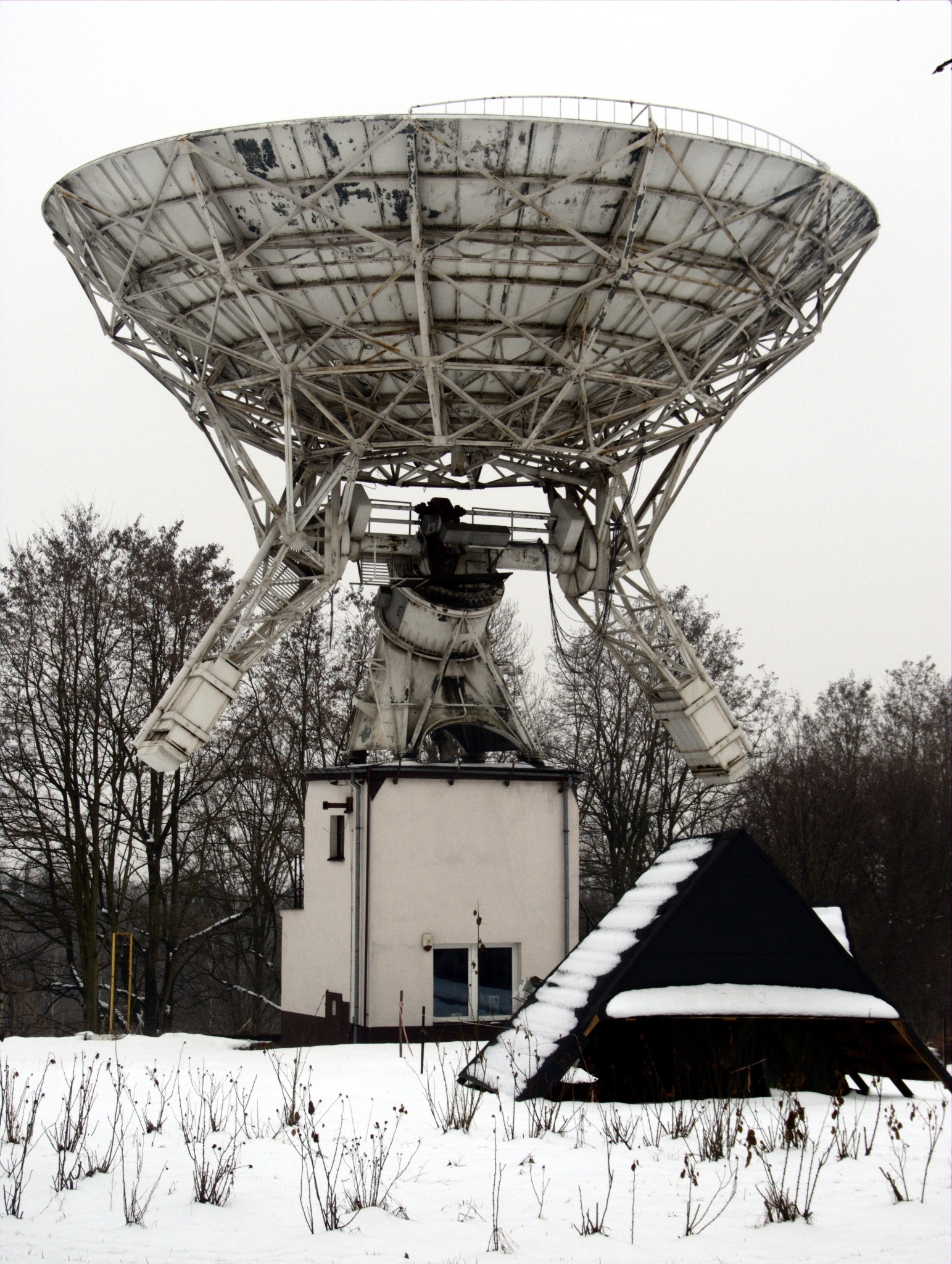 Radio telescope RT-15, Jagiellonian University